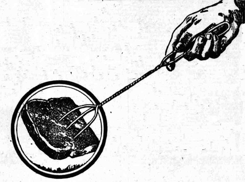 Extracted from a Lucky Strike tobacco ad. Shows toast being made over a fire.